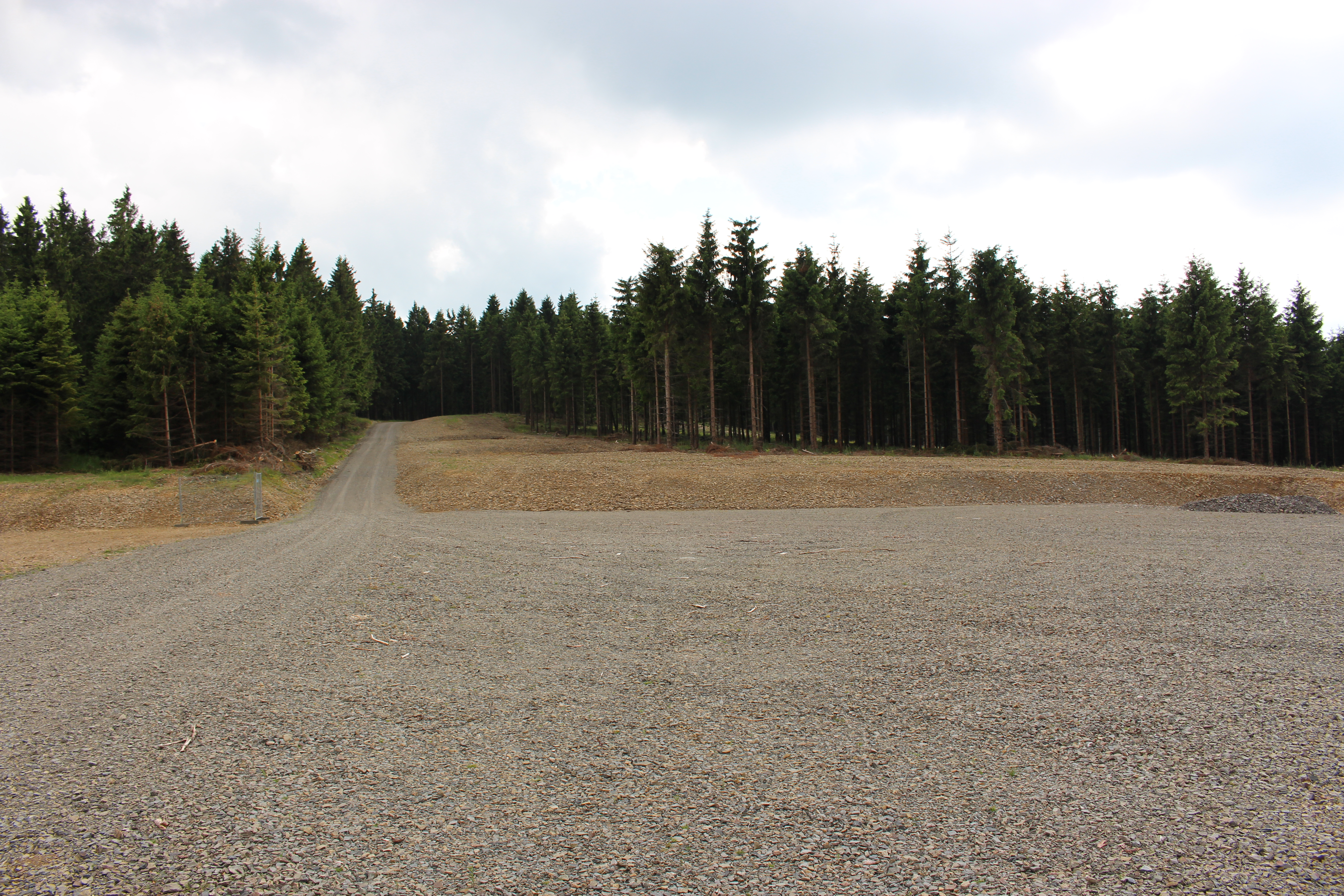 Paved area and tracks for the wind farm Sohl ("Windpar Sohl"), NRW, germany.